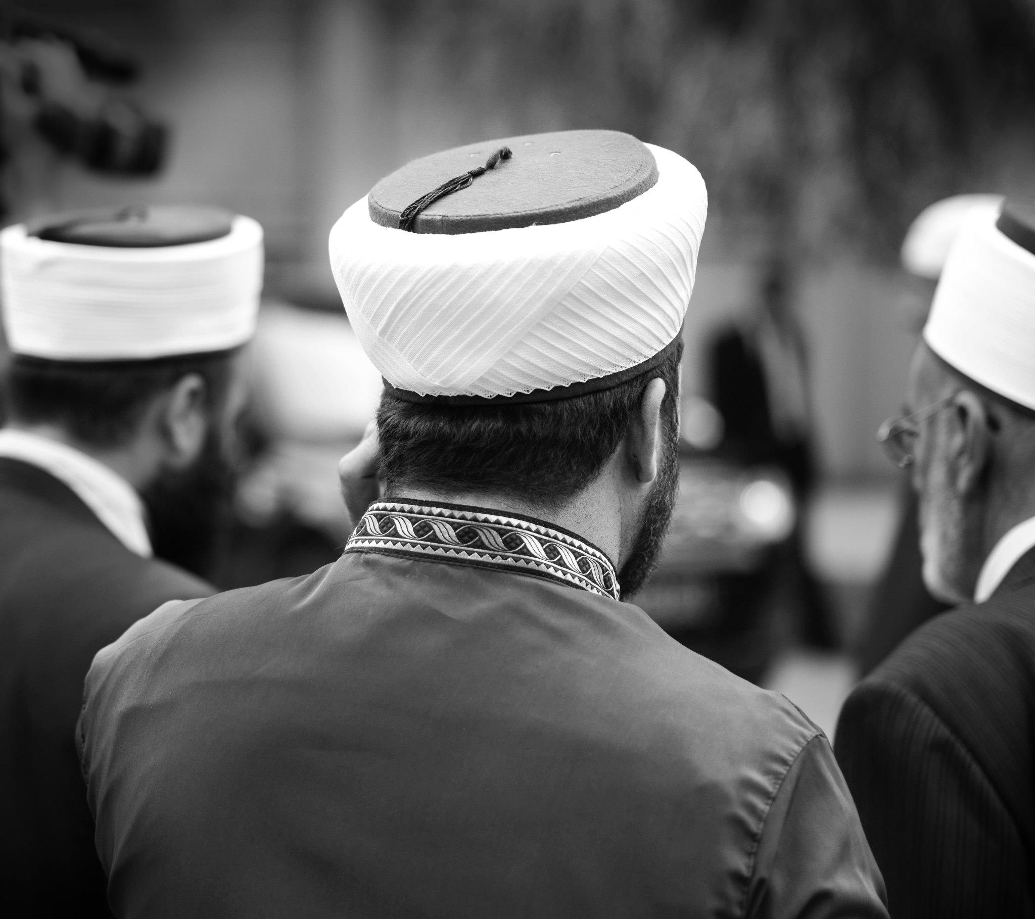 Kosovo islamic Islamic leaders